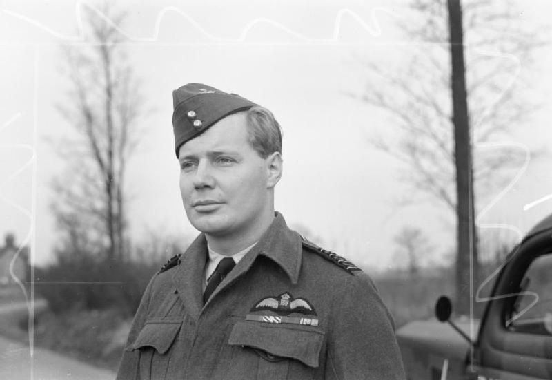 Royal Air Force- 2nd Tactical Air Force, 1943-1945. Group Captain P G Wykeham-Barnes, while Officer Commanding No. 140 Wing at Hunsdon, Hertfordshire. during a long and varied career as a fighter pilot, Wykeham-Barnes shot down at least 15 enemy aircraft in the Middle East, North Africa and the United Kingdom between 1940 and 1943. He commanded Nos. 73, 257 and 23 Squadrons RAF in 1941-1942 and also became Wing Commander Fighters of the Desert Air Force. Back in the United Kingdom, he was appointed Sector Commander at RAF Kenley in June 1943, and then served on the Air Staff at the Air Ministry. He assumed command of 140 Wing in March 1944, to be followed by his final wartime appointment on the Air Staff of No. 2 Group of 2 TAF in December.